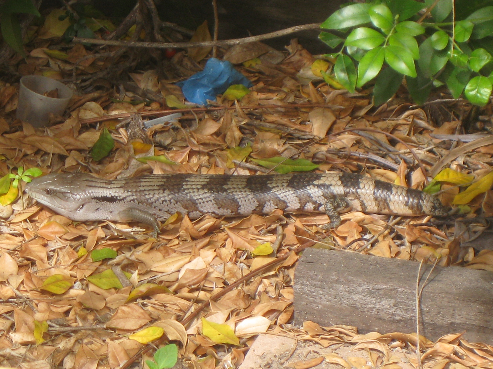 Skink Apparently a morph of the eastern blue-tongued lizard.